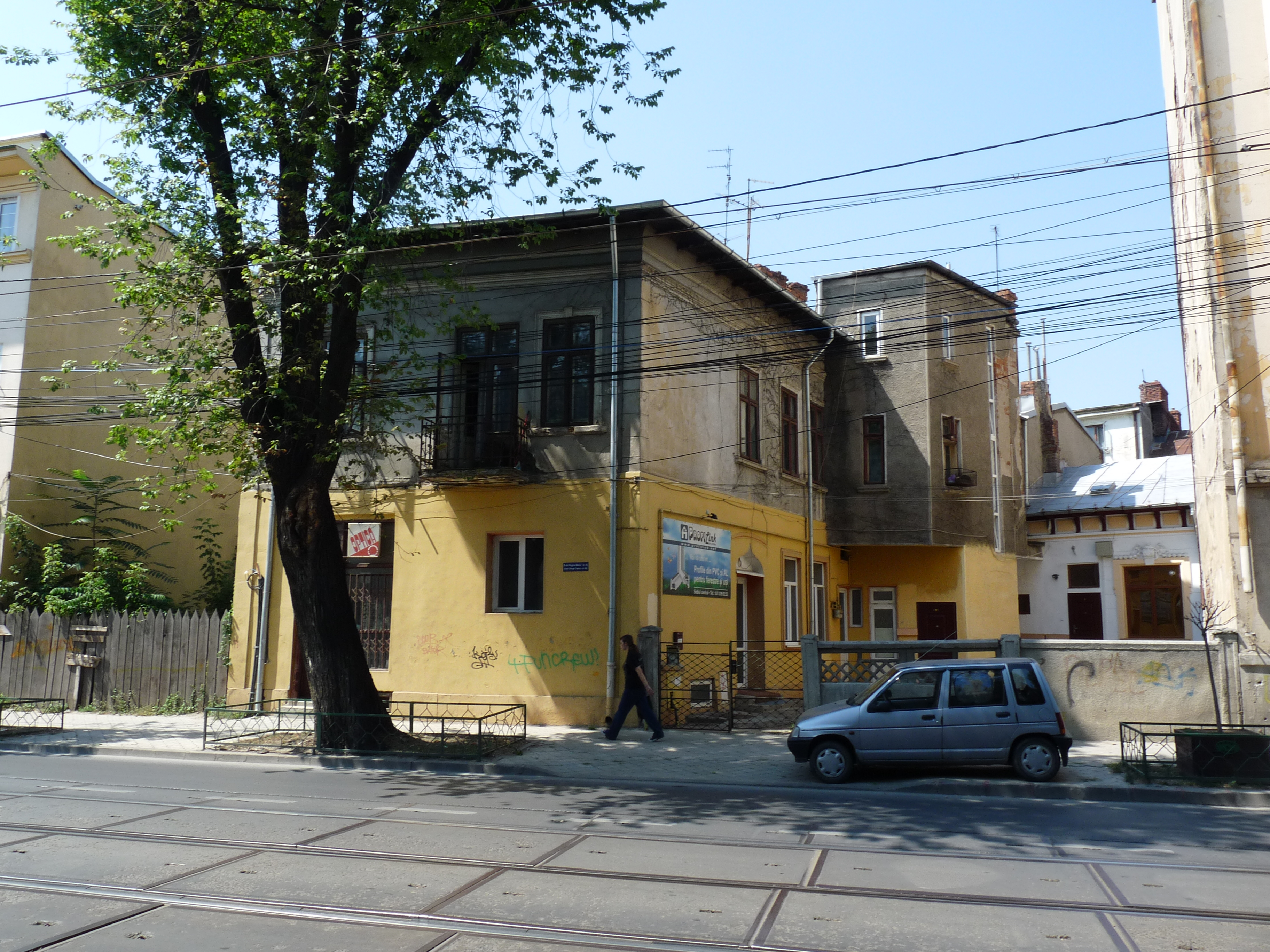 Historic building in Bucharest, Romania, on Regina Maria boulevard 76